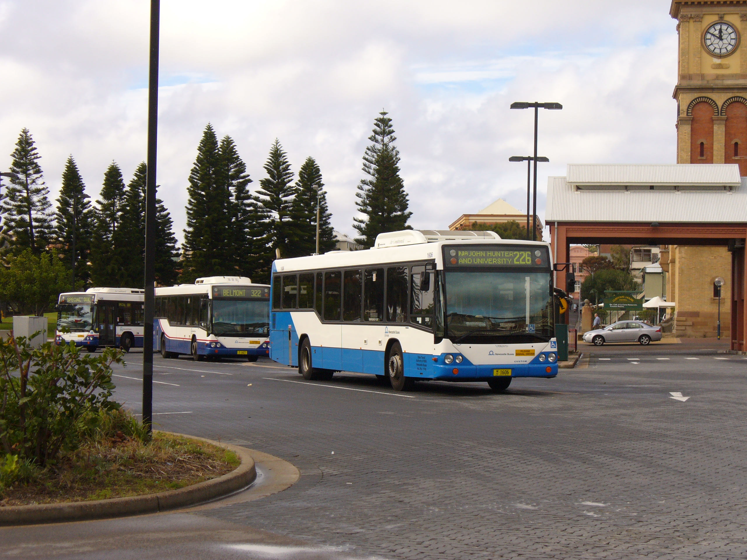 Newcastle Bus Interchange, Newcastle, New South Wales, Australia